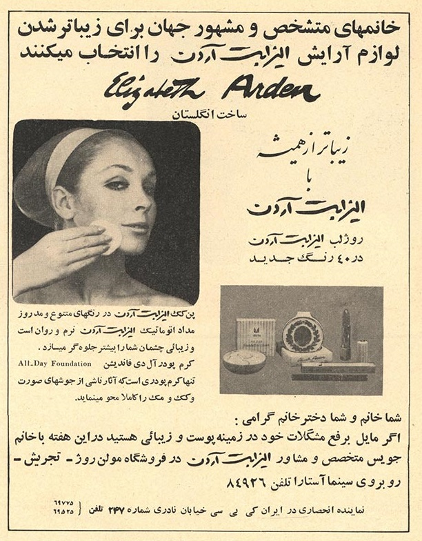 Elizabeth Arden - Magazine ad - Zan-e Rooz, Issue 181 - 31 August 1968